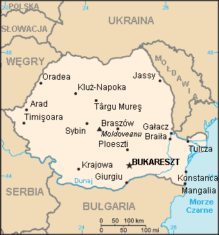 Map of Romania, in Polish